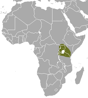 Jackson's Shrew (Crocidura jacksoni) range